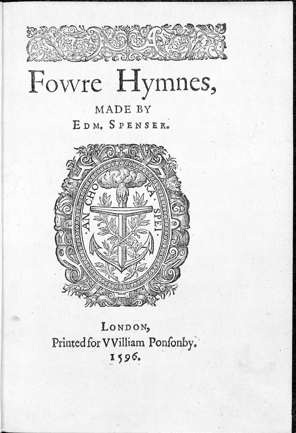 Title page, "Fowre Hymnes" by the English author Edmund Spencer. Image courtesy of the Beinecke Rare Book & Manuscript Library.